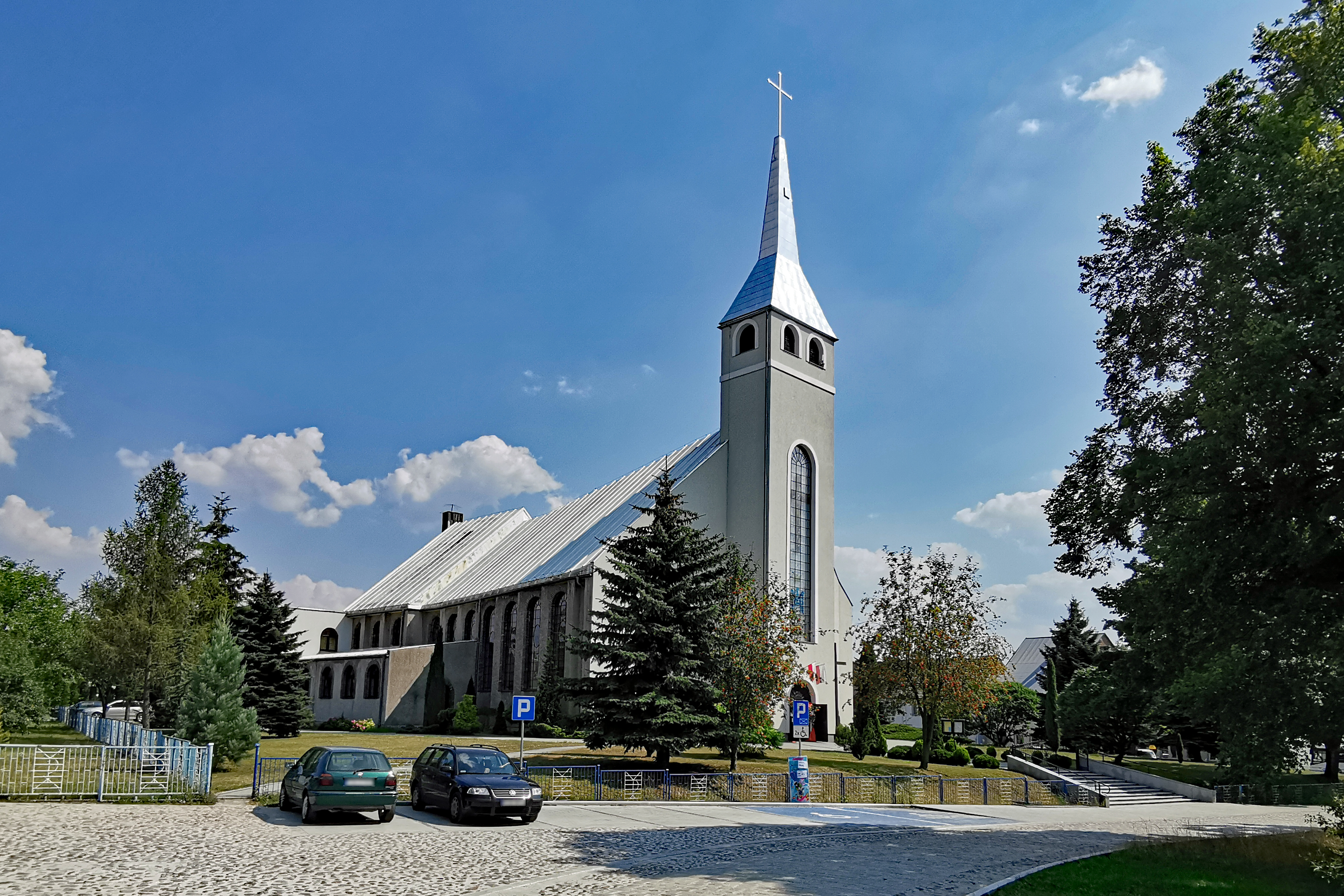 Trzebiel (Poland)